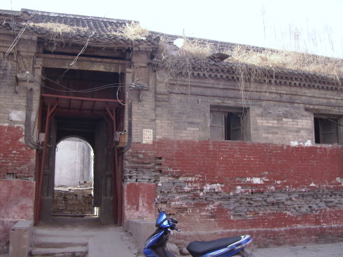 Old Handan Center Avenue.